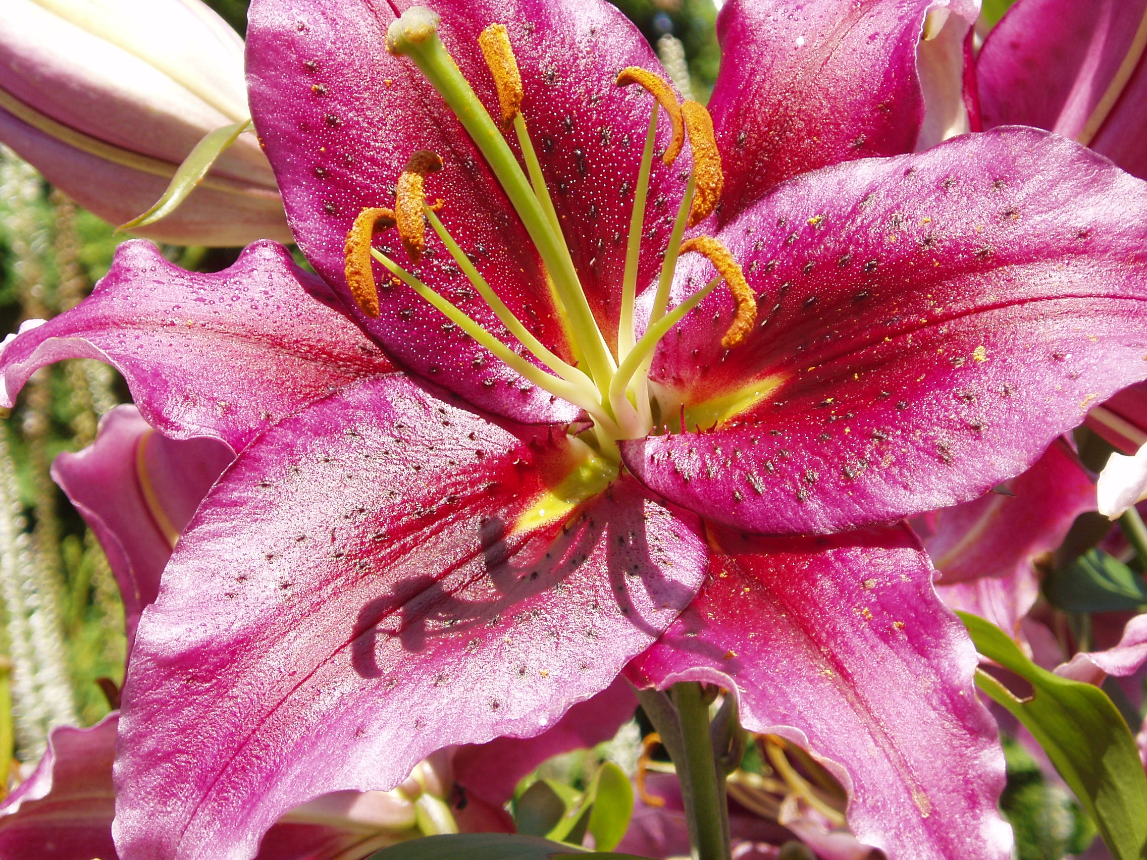 Flower at the New-Brunswick Botanical Garden Français cadien: Fleur au Jardin botanique du Nouveau-Brunswick